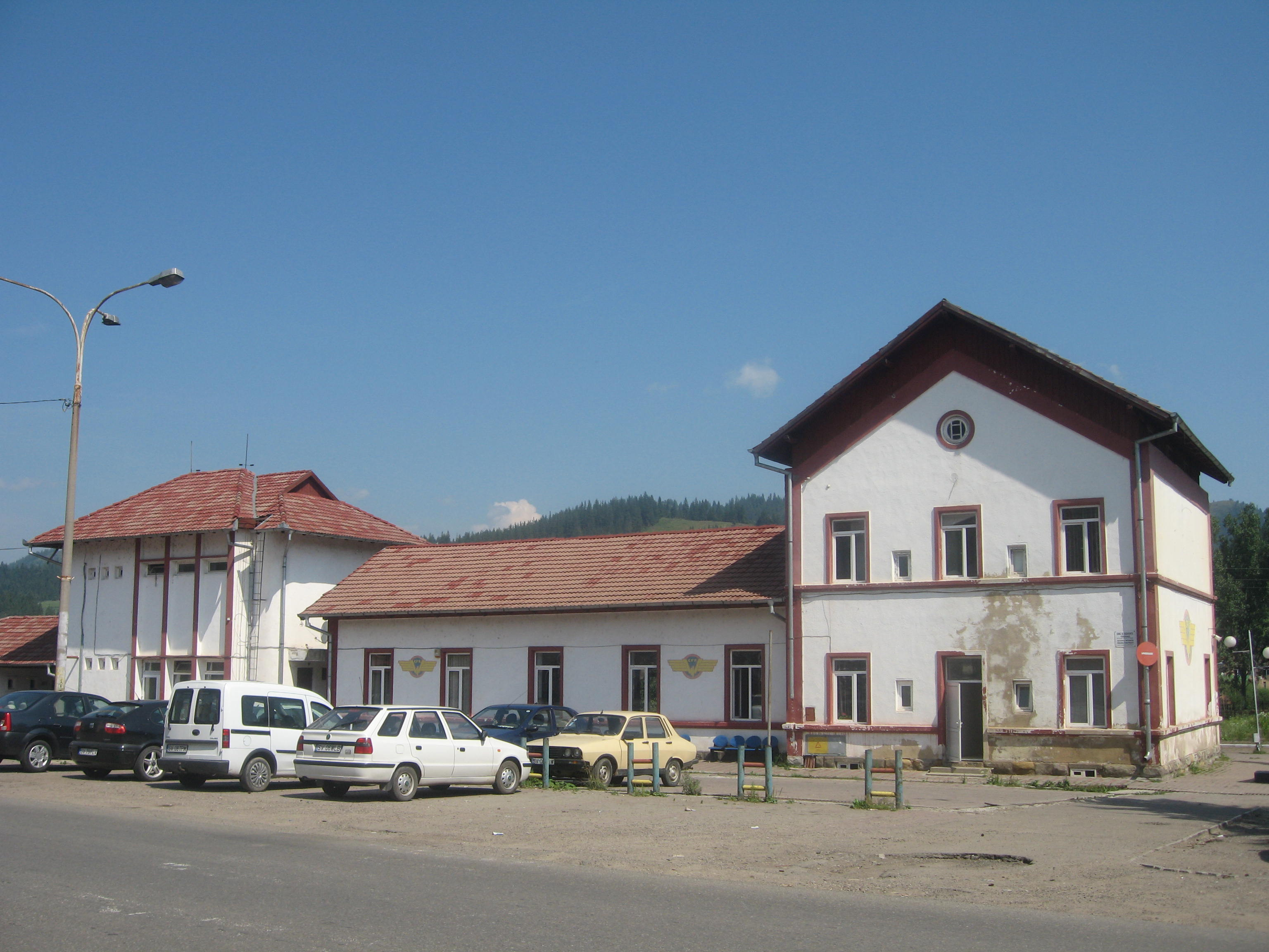 The Railway Station in Câmpulung Moldovenesc, Romania